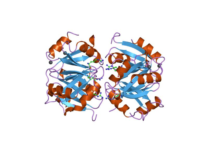 Cartoon representation of the molecular structure of protein registered with 1xxa code.